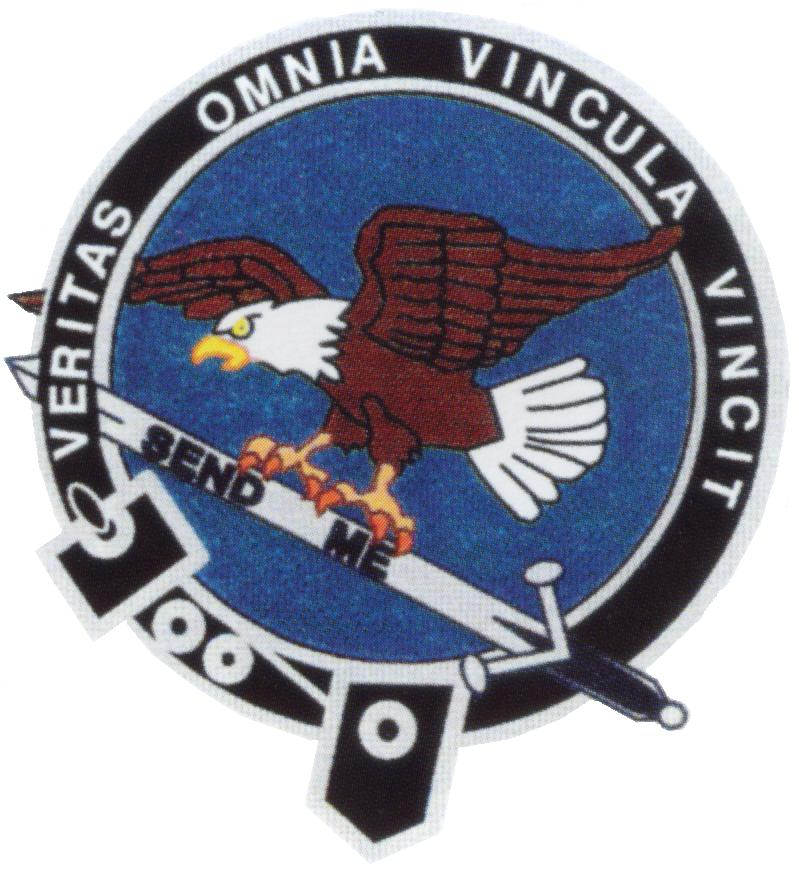 Distinctive Unit Insignia of the US Army Intelligence Support Activity (USAISA)